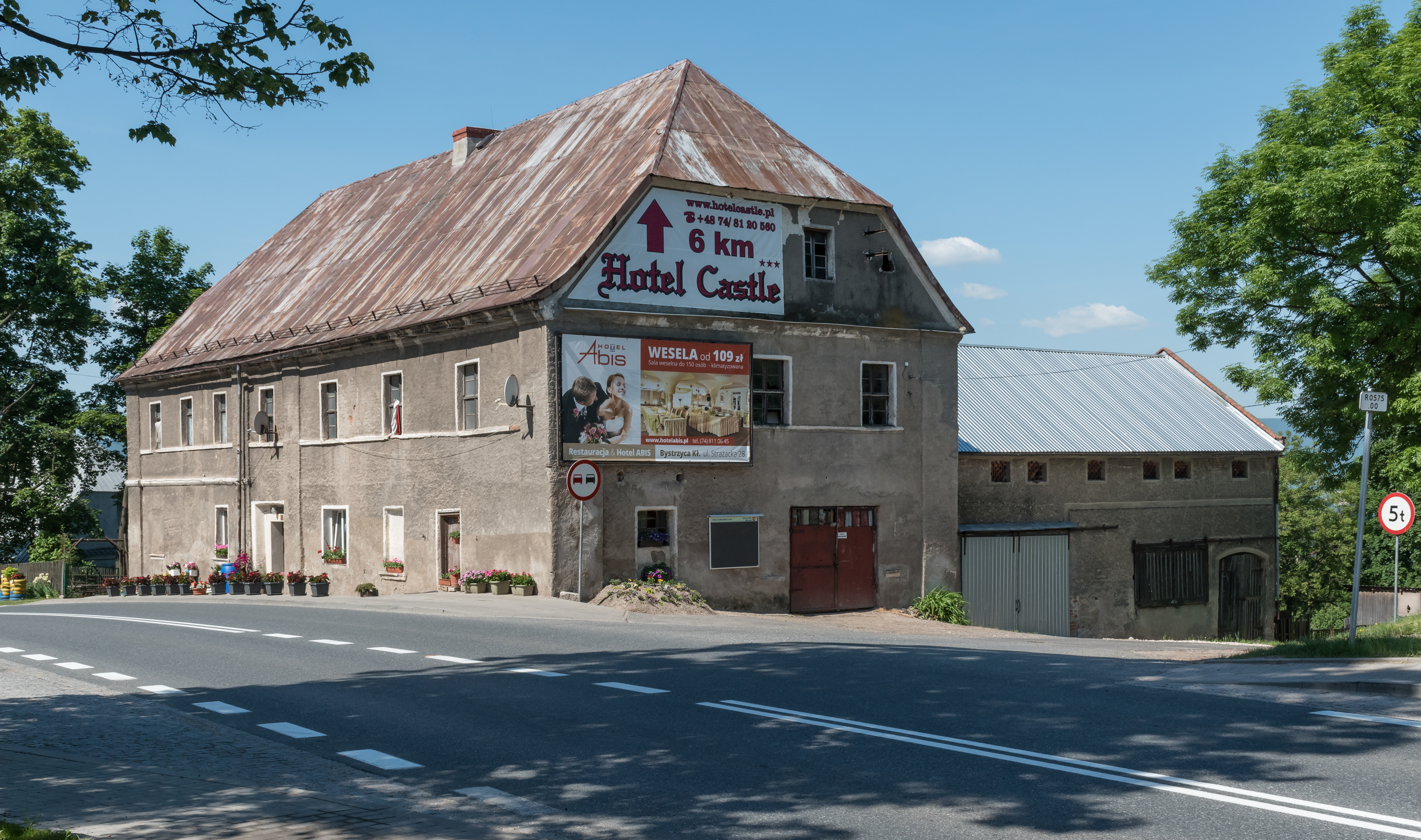 House number 19 in Mielnik, former inn